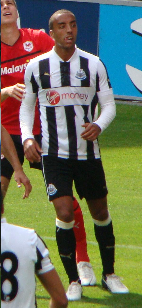 James Perch